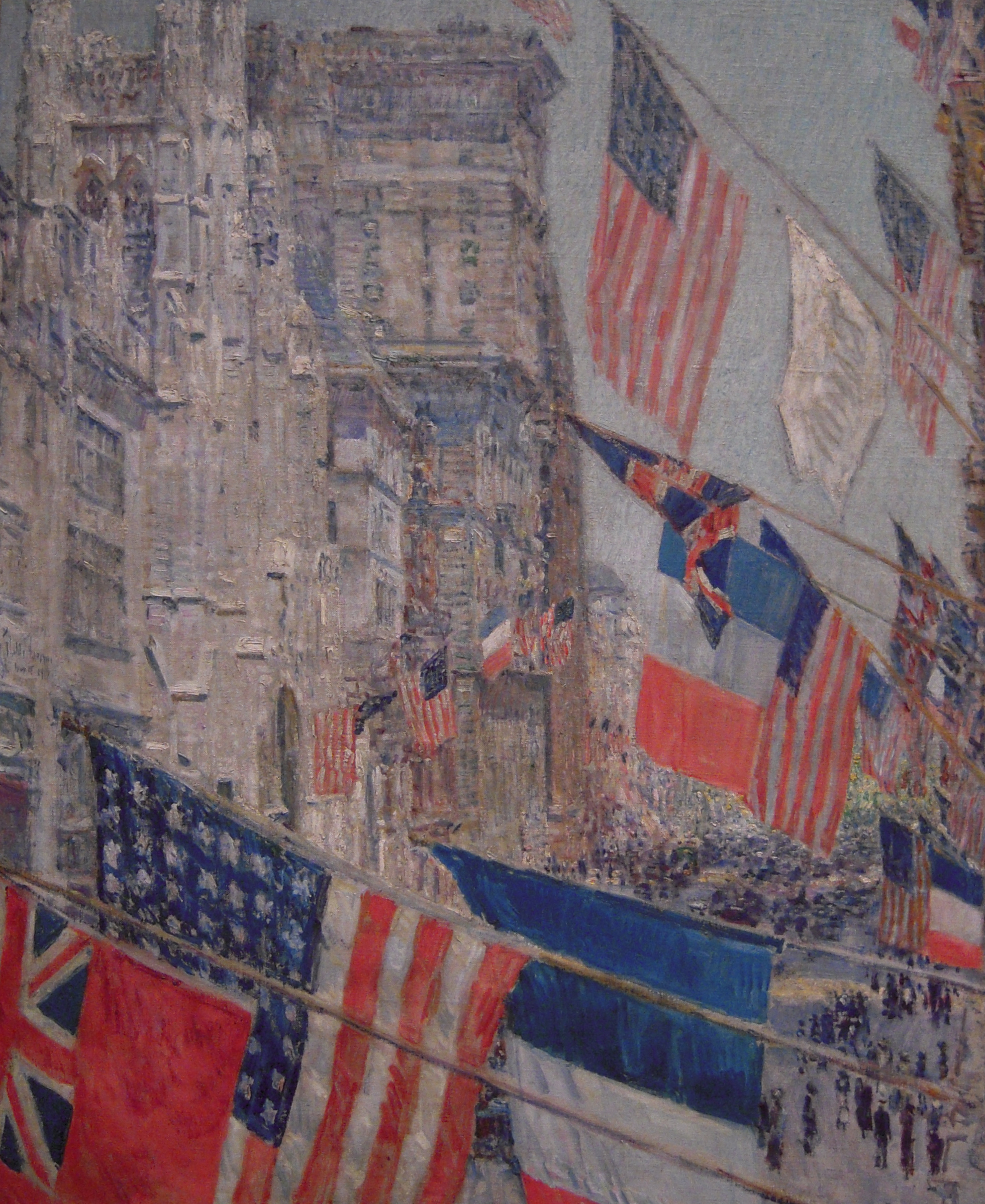 Childe Hassam's painting Allies Day, May 1917, from 1917. Hanging at the National Gallery of Art in Washington D.C.